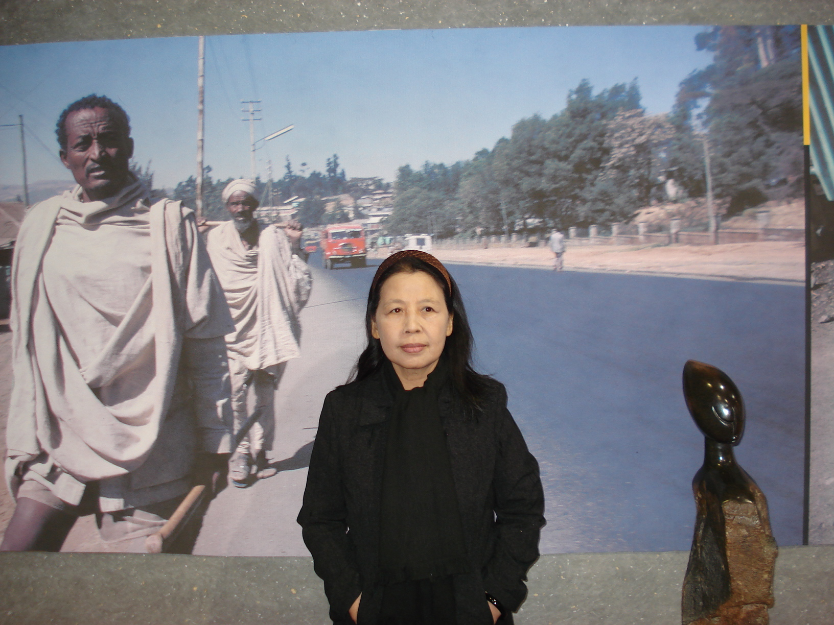 Chan dung Le Minh Khue